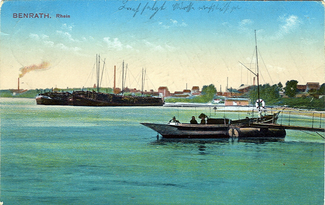 Postcard, dated 23.5.1913. Title: "Benrath - River Rhine".